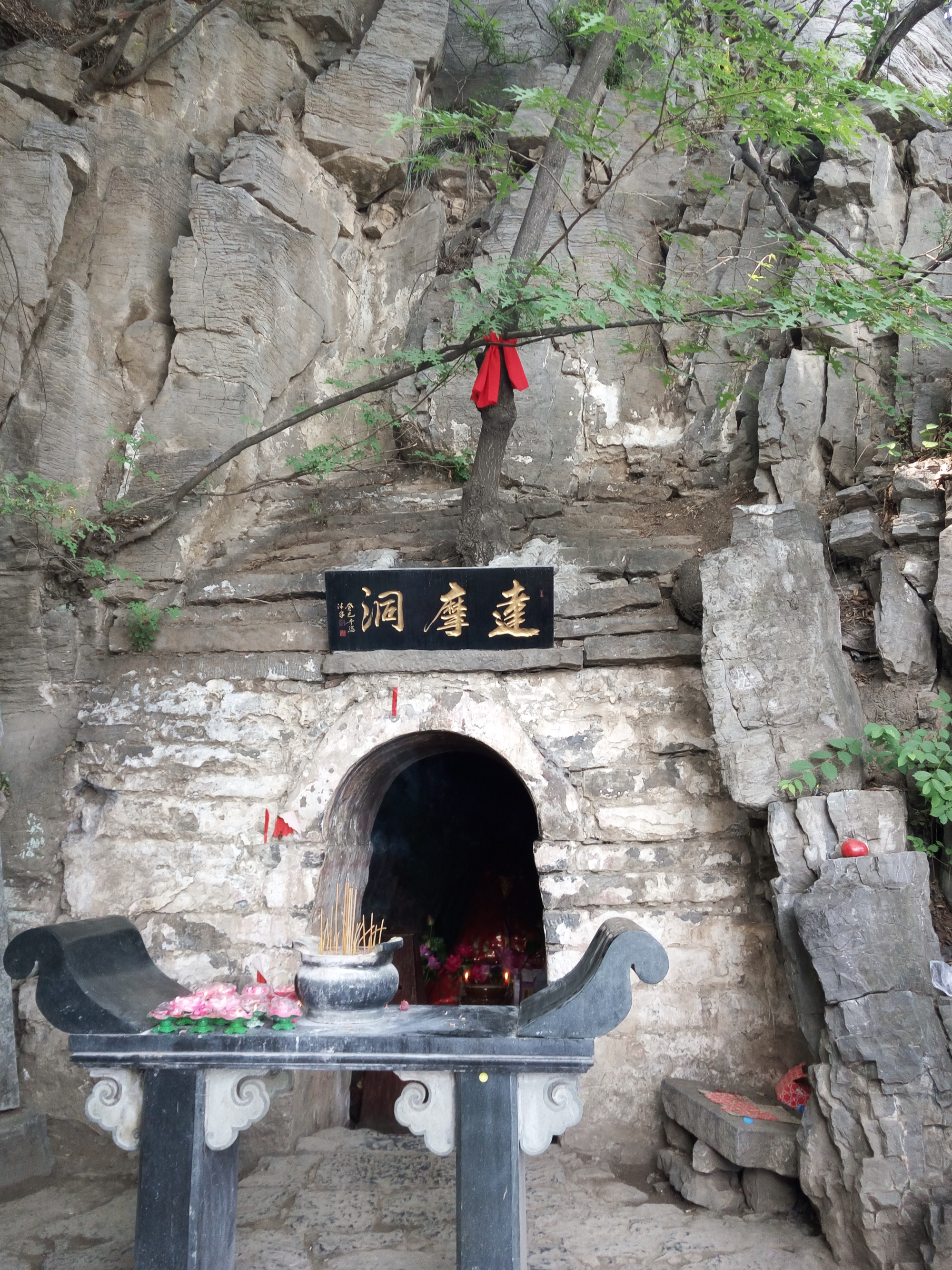 The Damo Cave in Mount Song, Henan, China. It is named after Bodhidharma, an ancient Indian Buddhist monk.